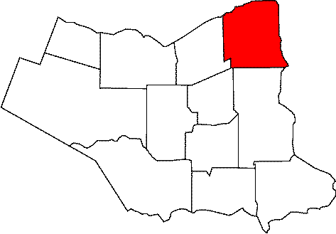 Map of Niagara-on-the-Lake, Ontario Summary Re-created as a derivative of Image:Thorold-niagara.PNG, which is in PD.